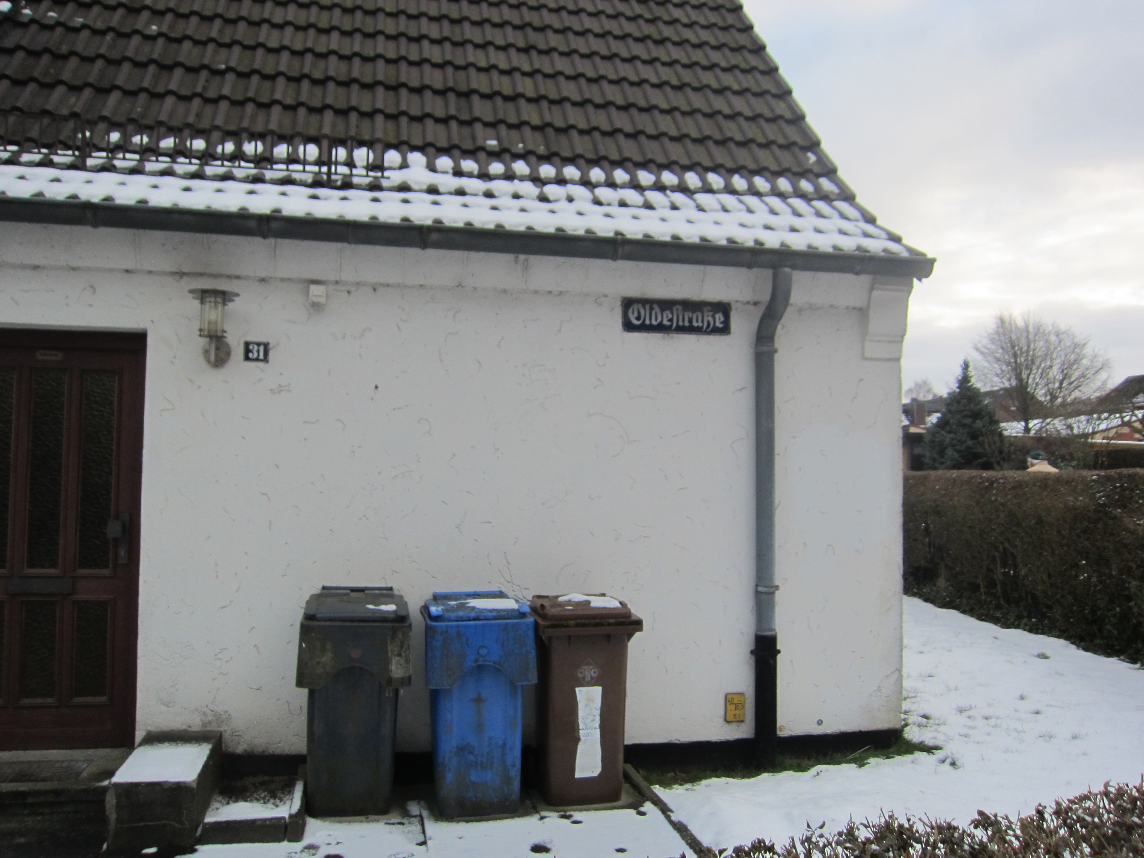 Street sign "Oldestraße" in Kiel-Friedrichsort